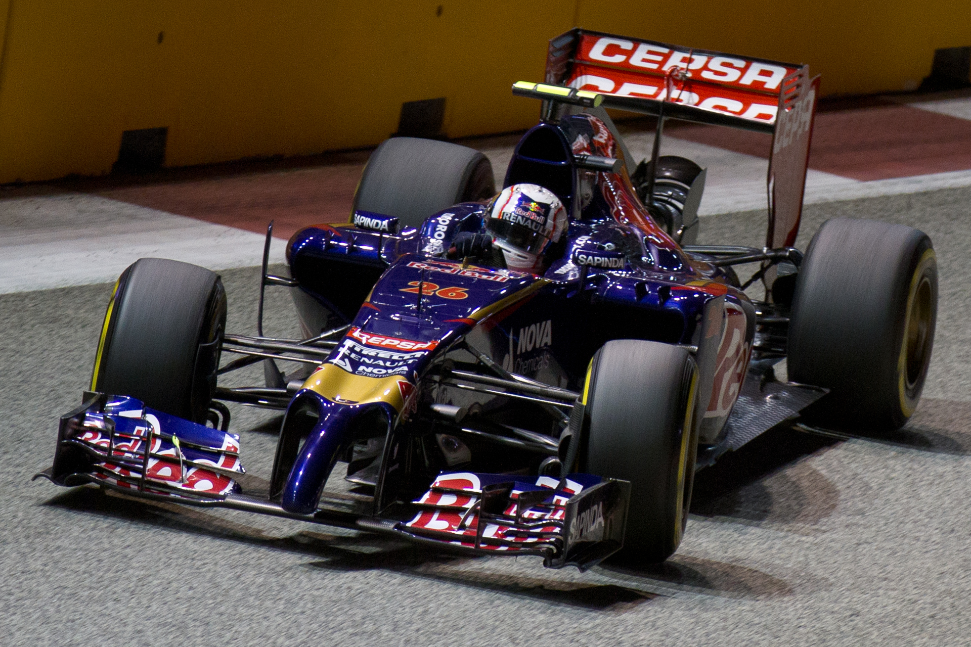 Formula One 2014 Rd.14 Singapore GP: Daniil Kvyat (Toro Rosso)